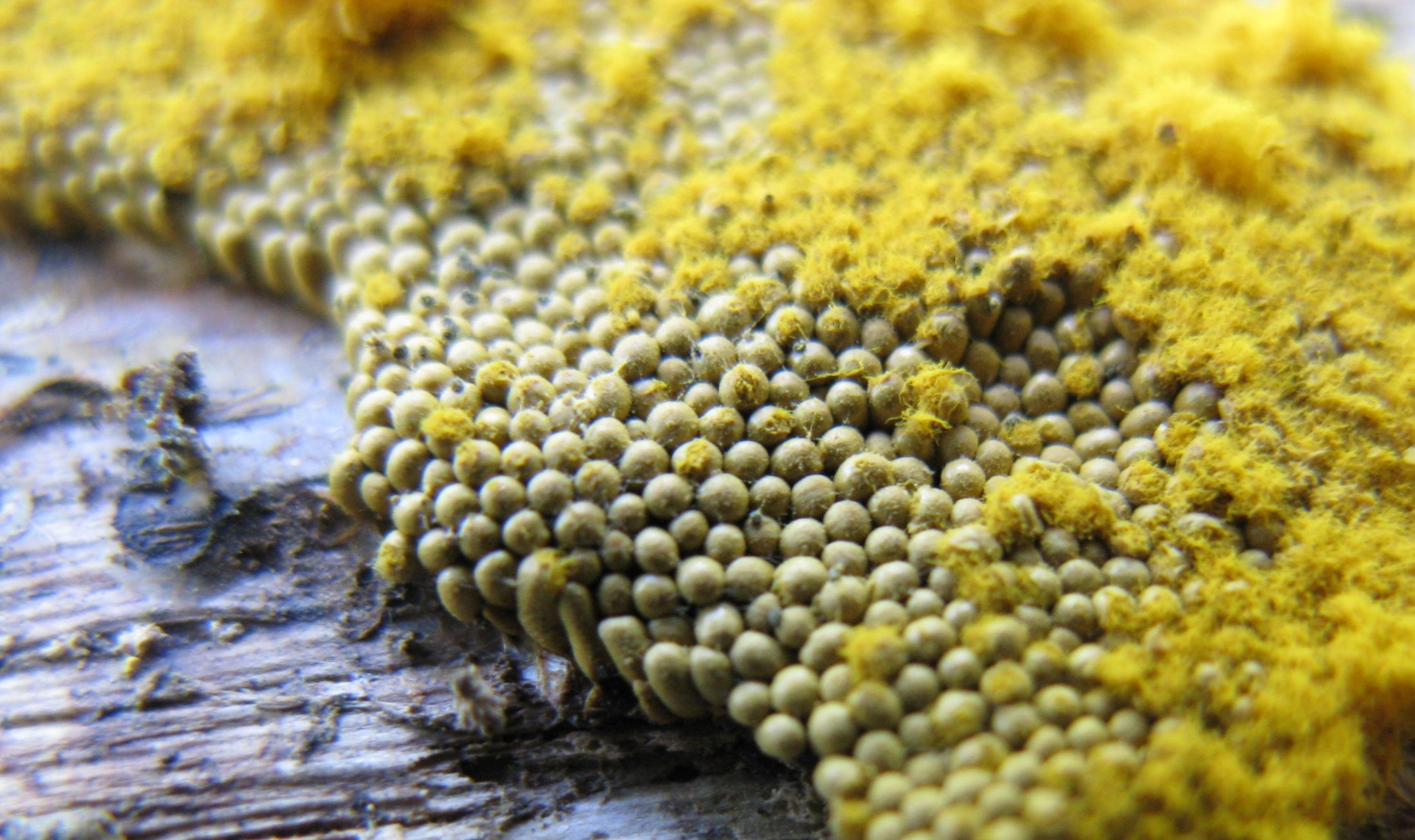 Trichia favoginea Notes: Trichia favogineanotes: Growing under the bark of a rotting oak log